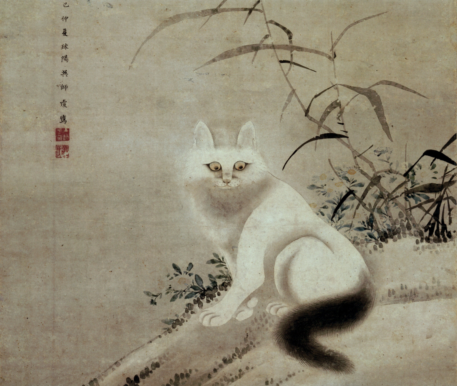 Divid Cat by Yamaguchi Soki, Naha City Museum of History, Naha, Okinawa, Japan